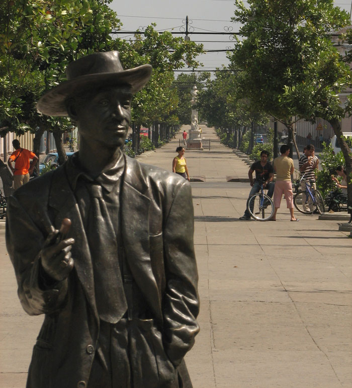 Bronze Statue of Benny Moré in Cienfuegos